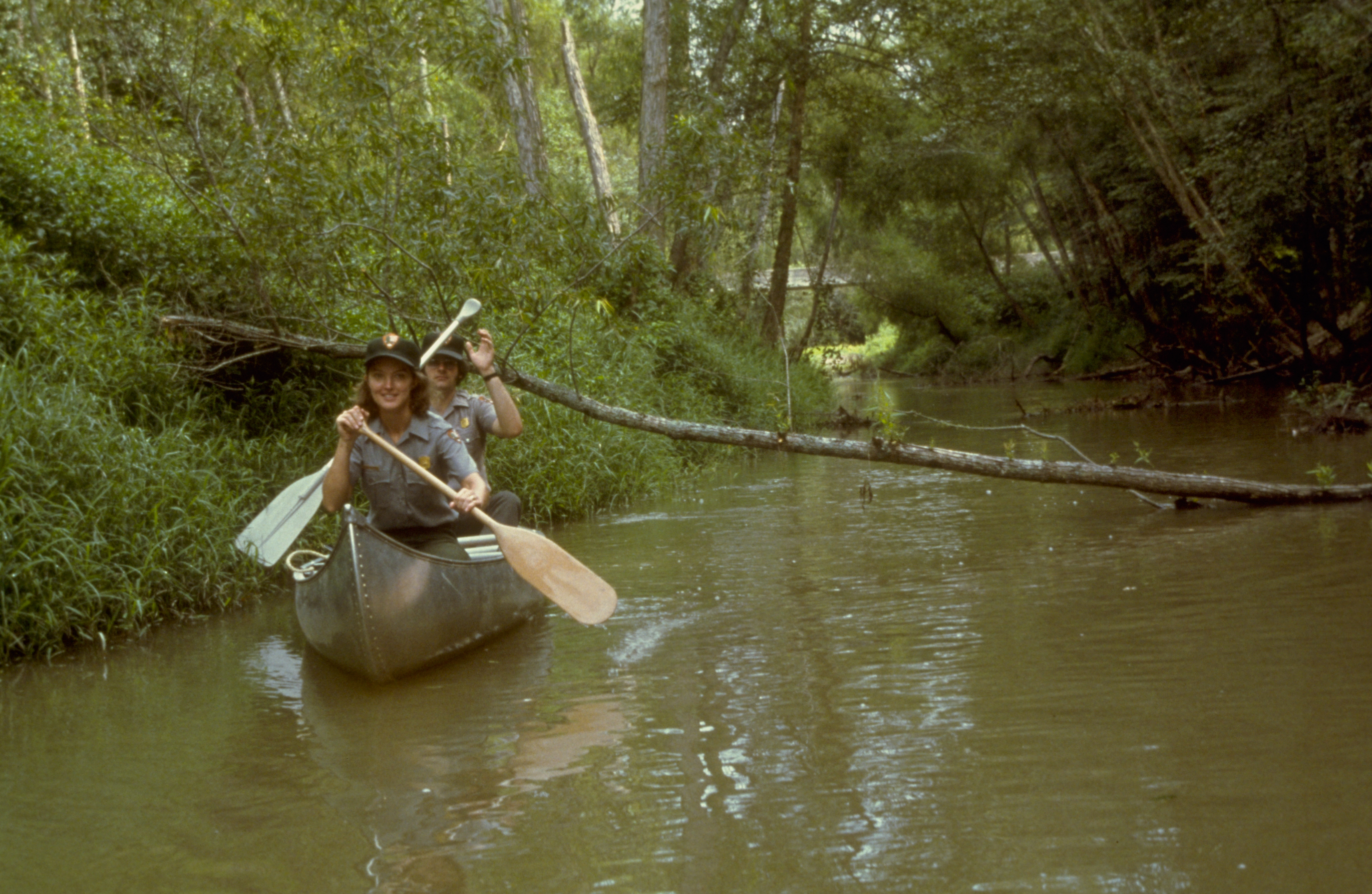 Location Big Thicket National Preserve Description Strands of sun, soil, and air are woven into a beautifully connected patchwork of plants and animals. The last Ice Age pushed plants from other parts of the country into a close neighborhood. An amazing diversity of plants and animals from many parts of North America live in the Big Thicket region of southeastern Texas.